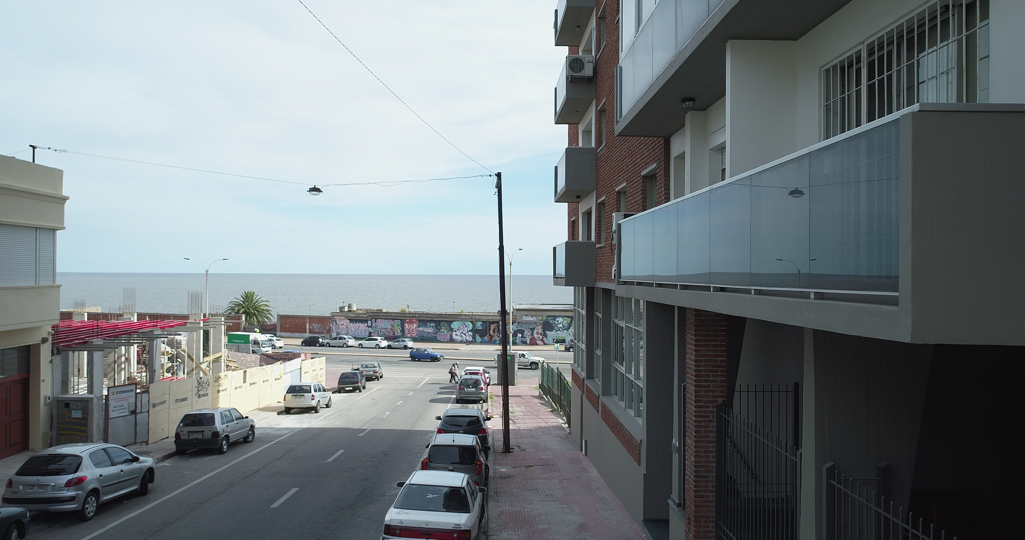 Esquina de Durazno y Convención. Montevideo